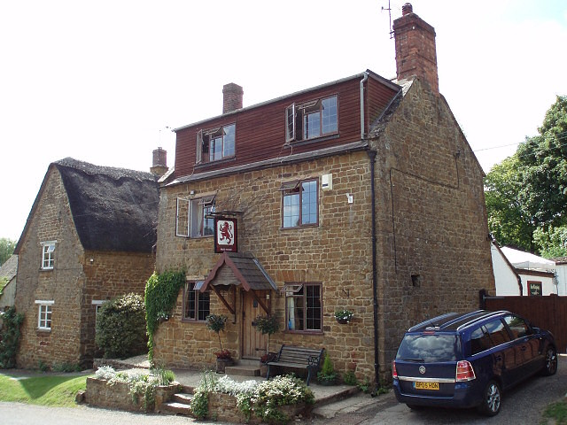 The Red Lion, Horley A small village pub